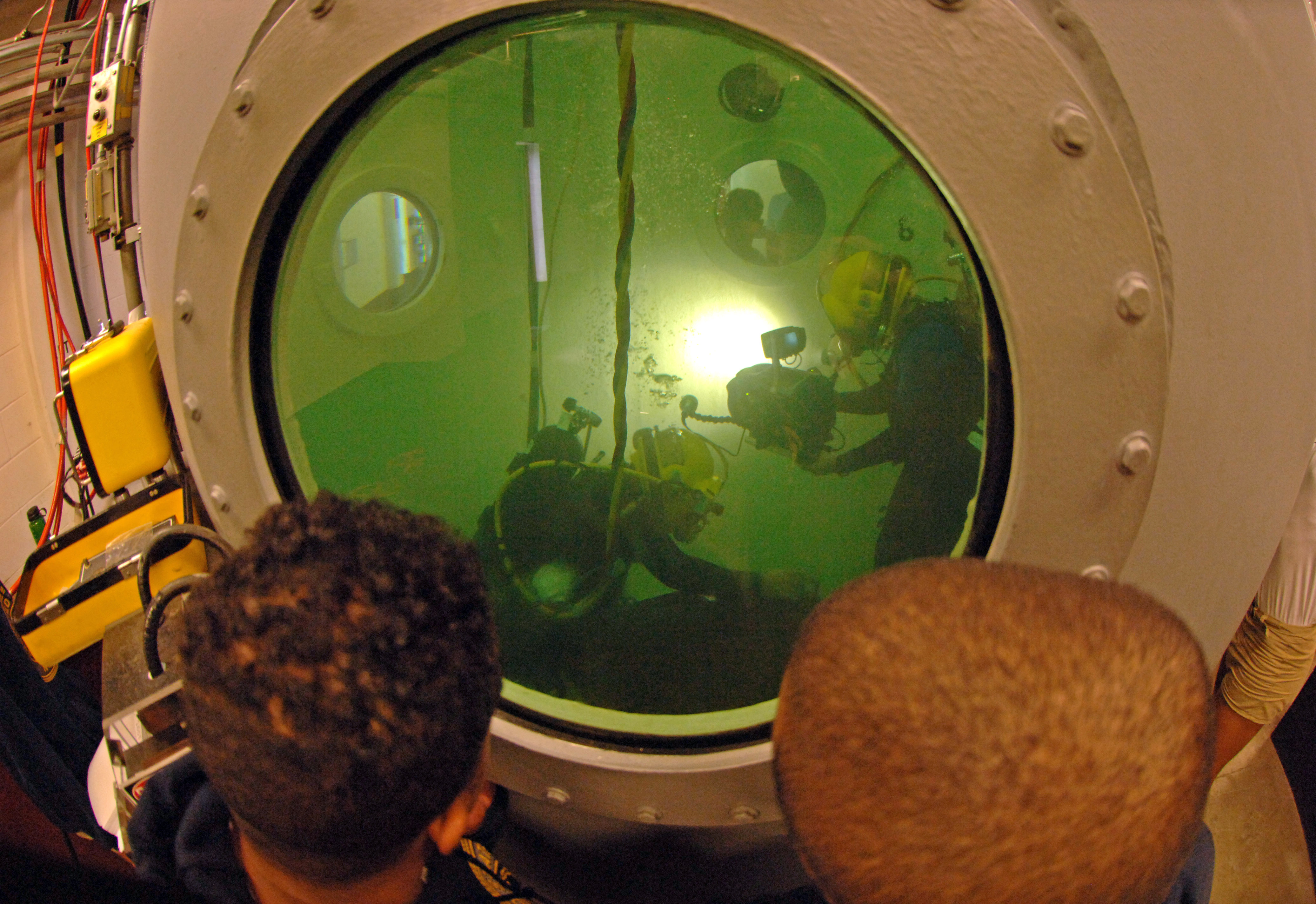 Panama City, Fla. (Nov. 6, 2006) - Mass Communication Specialist 2nd Class Christopher Perez films a student performing the Drill, Tap, and Grind portion of the Second Class Diver course at the Navy Diving & Salvage Training Center. The 100-Day course covers Scuba, MK-20, and MK-21. U.S. Navy photo by Mass Communication Specialist Seaman Zach Hernandez (RELEASED)